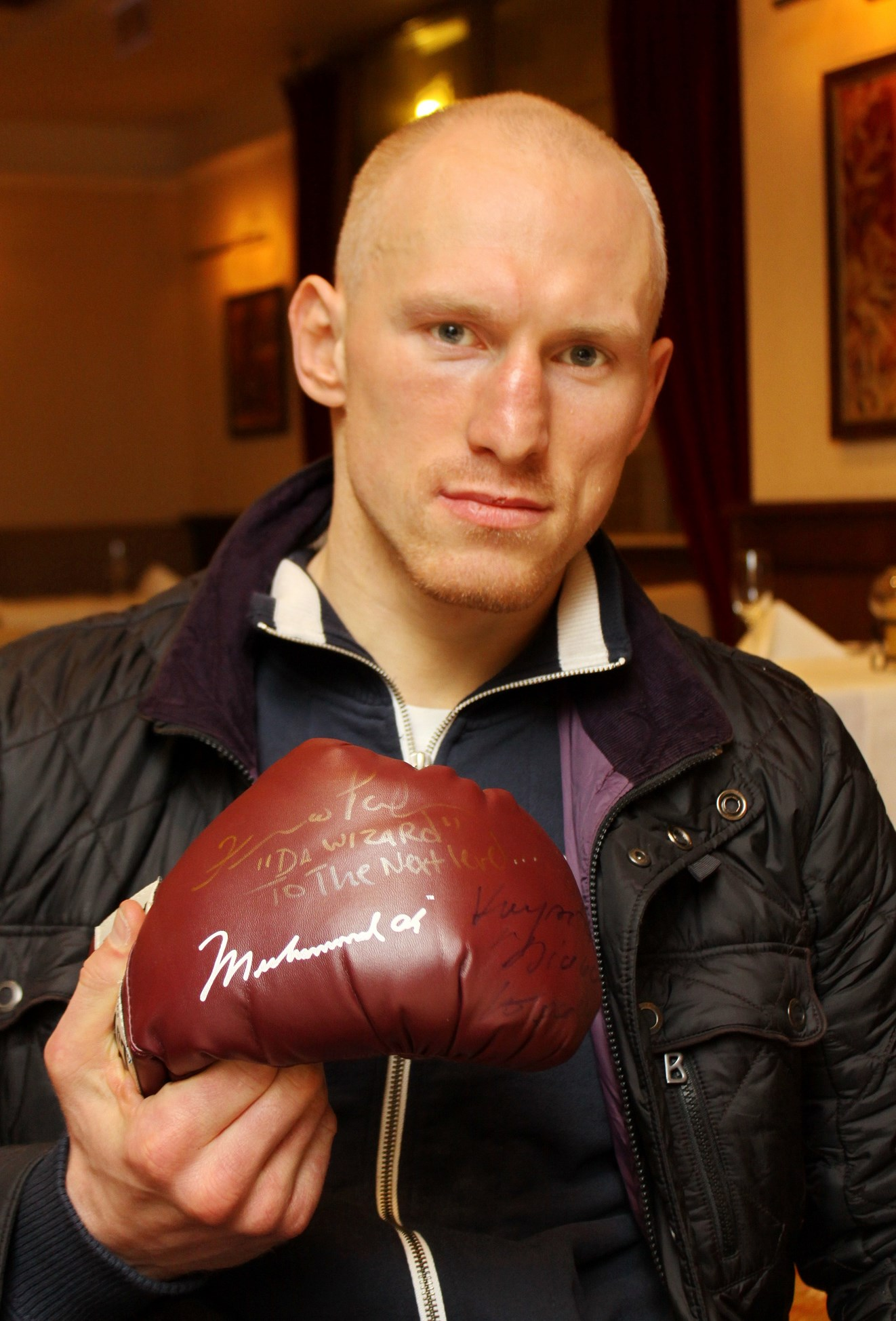 K. Włodarczyk with signed boxing glove.